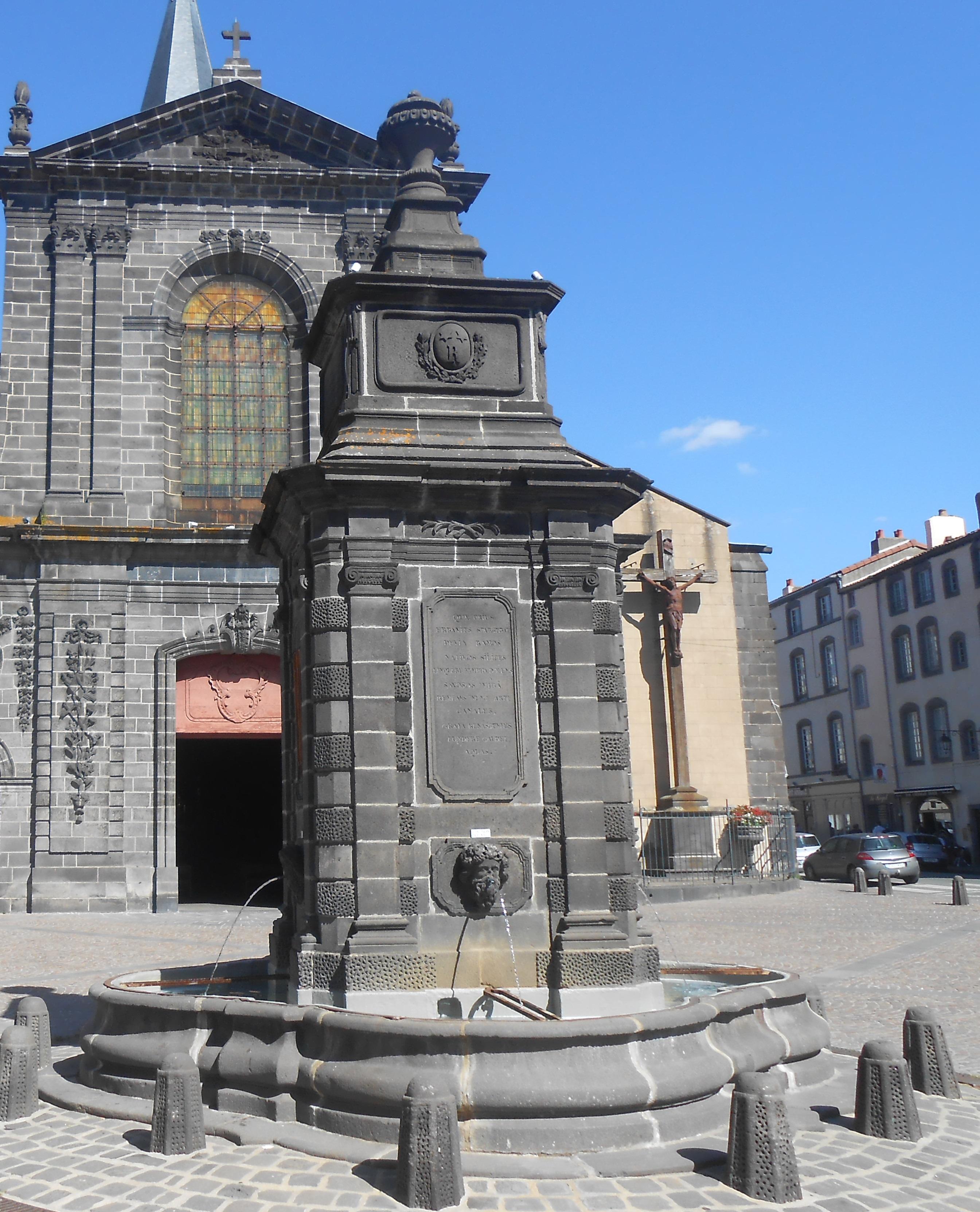 Balainvilliers Foutain and Saint-Amable church, Riom, Auvergne, France.